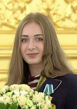 Vladimir Putin presented state awards to the Russian athletes who won gold medals at the 2016 Olympic Games in Rio de Janeiro (Brazil).